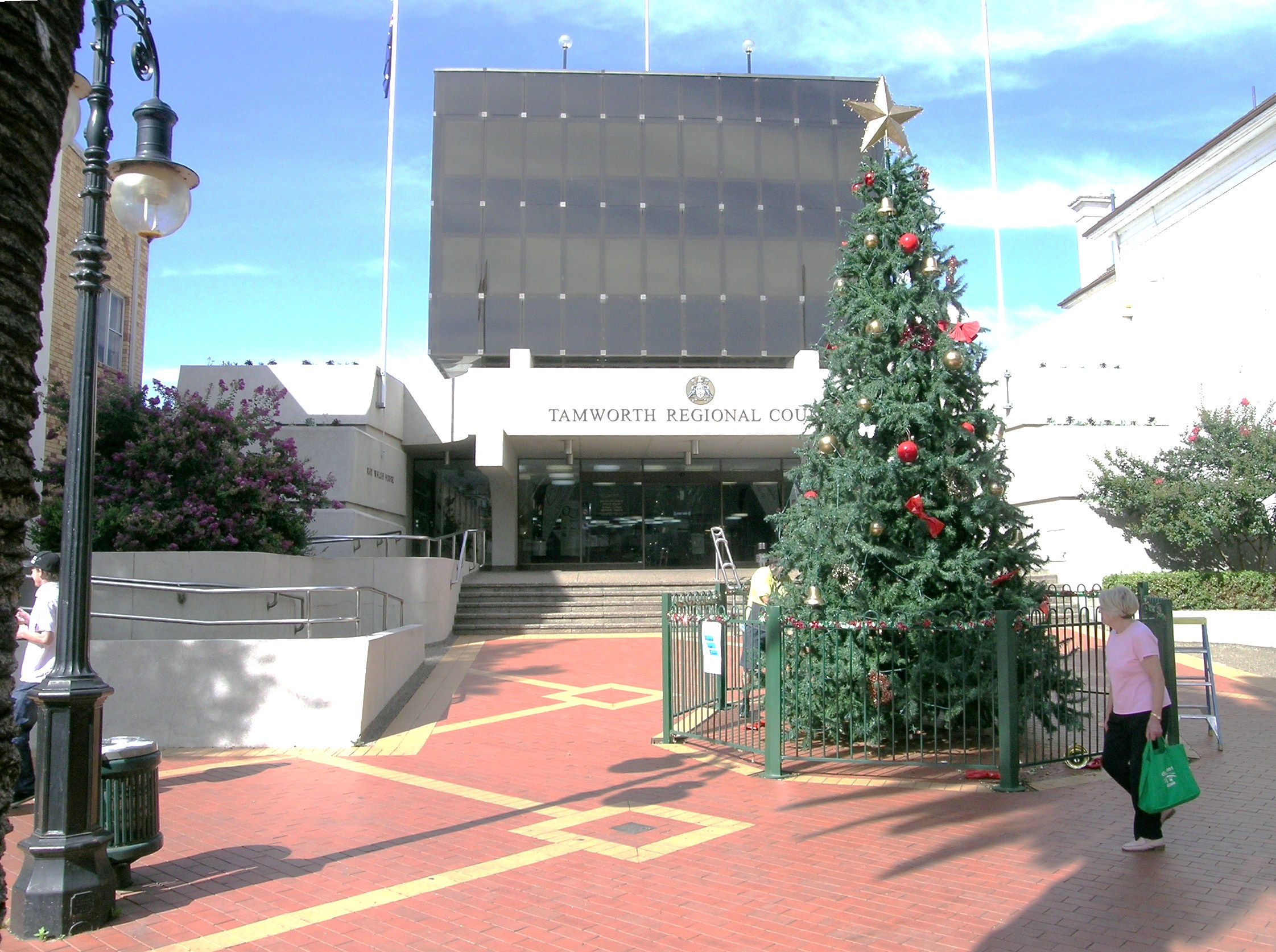 Tamworth Regional Council office building, Tamworth, NSW.